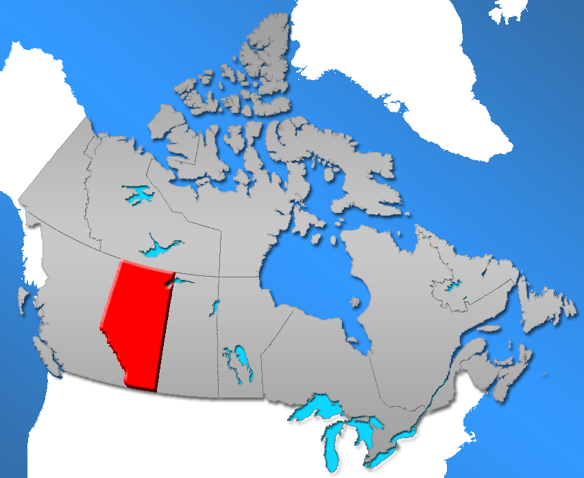 Province of Alberta in Canada